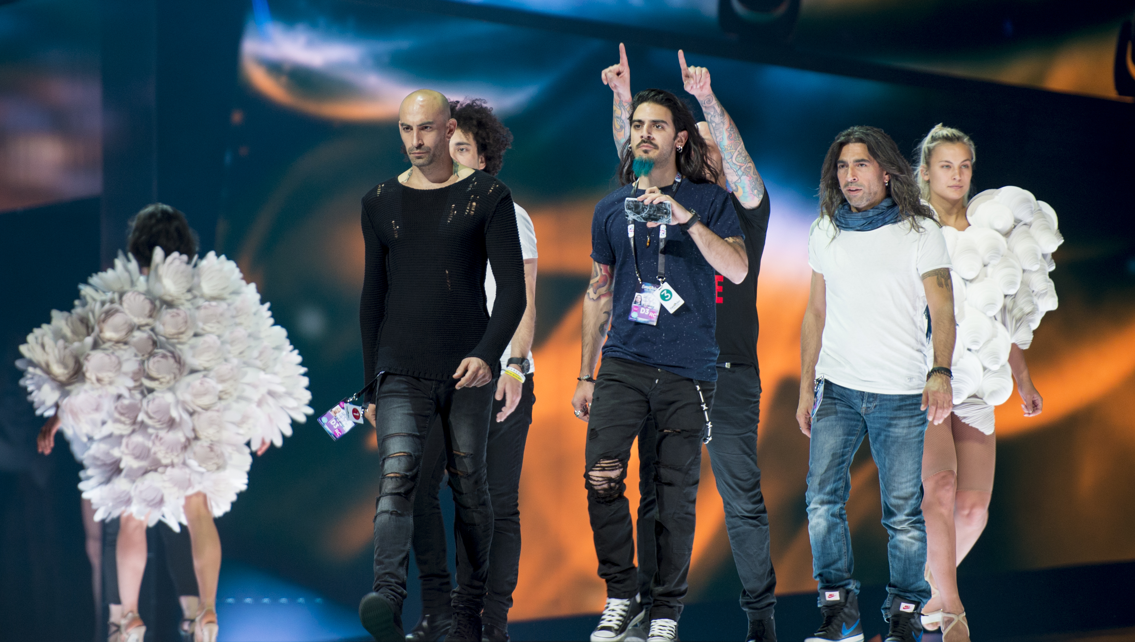 The opening act of the final, during the first dress rehearsal of the Eurovision Song Contest 2016 in Stockholm. (Help translate this text)